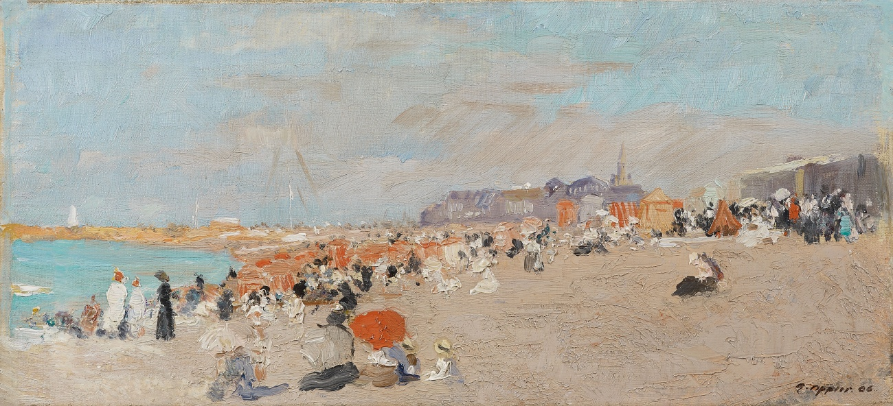 Painting by Ernst Oppler. 21,4 x 46,8 cm